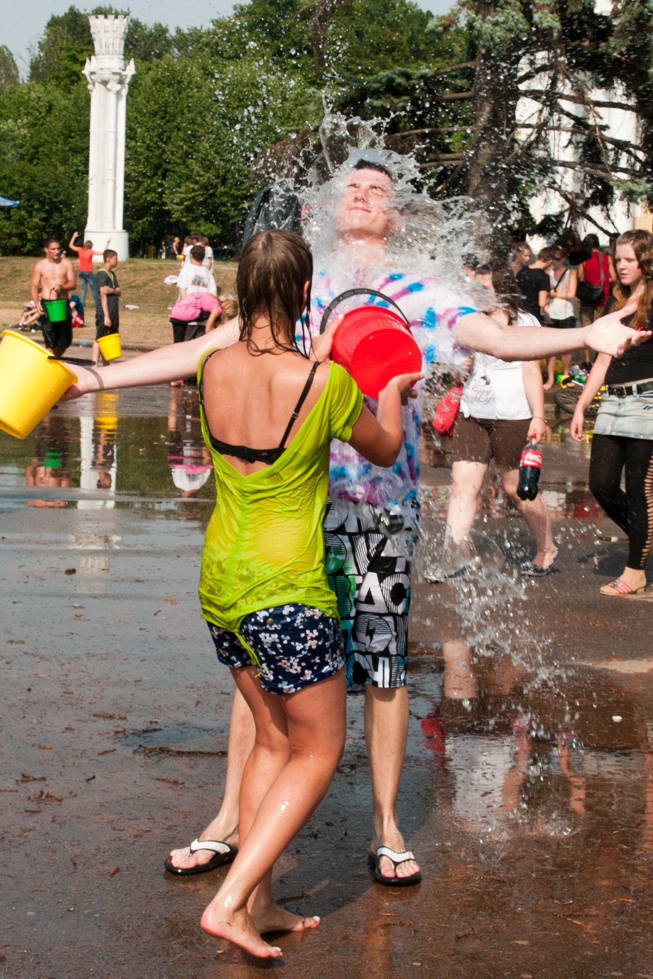 A teen is spraying another one with a full bucket of water, at a public water fight, Moscow, Russia (July, the 29th of July 2010)